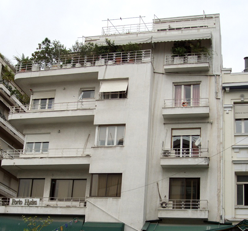 House from early modernism (1920ies) in Kolonaki, Athens Photo:Christos Vittoratos